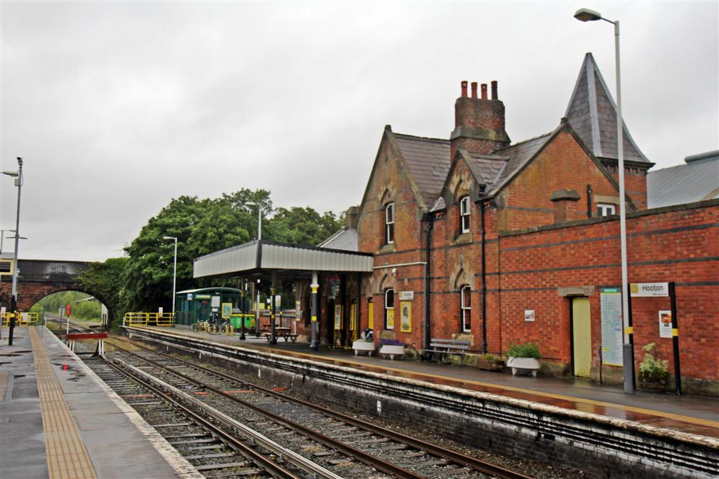 Disused platform, Hooton Railway Station